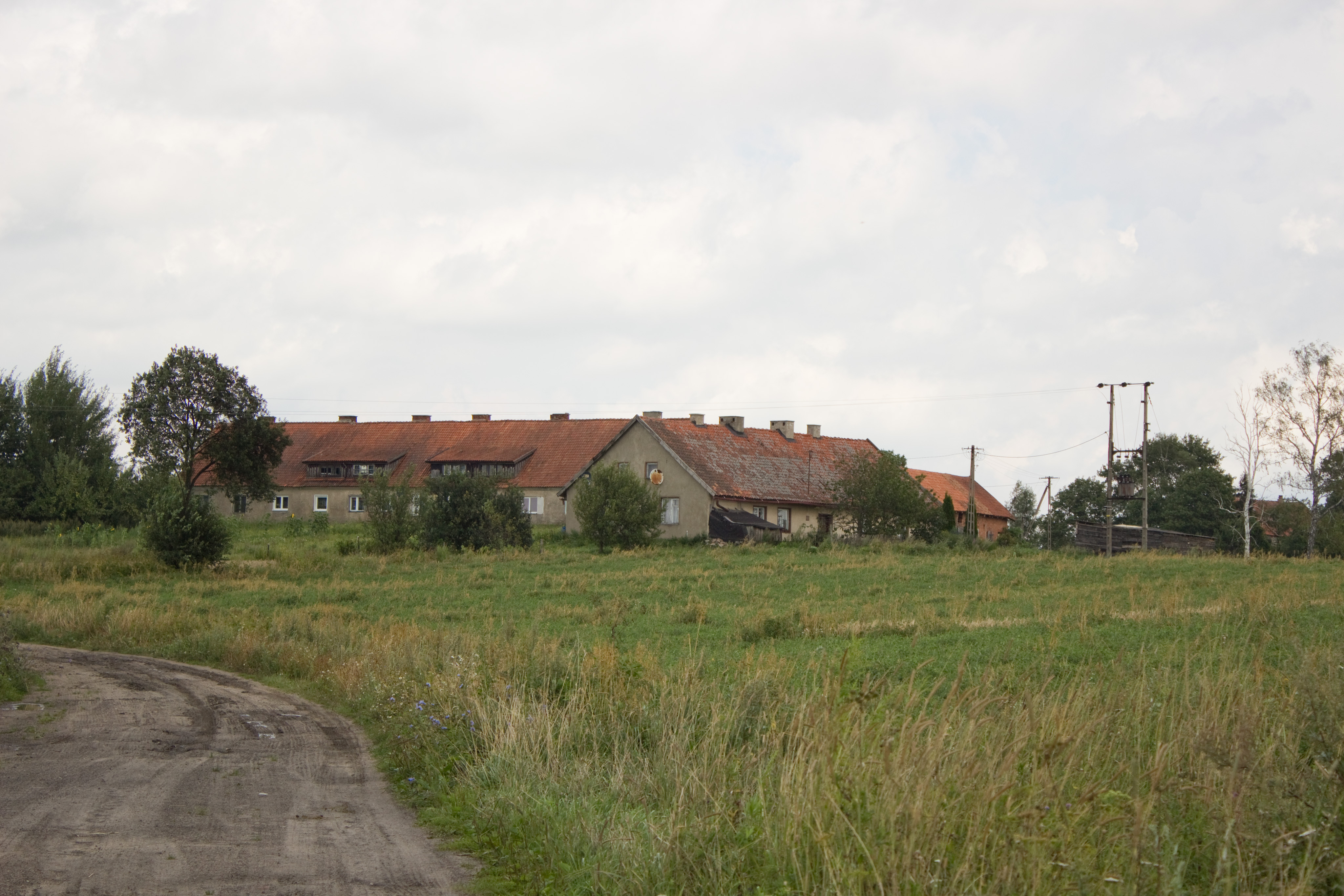 Manor house, Gronowo, gmina Mrągowo, powiat mrągowski, Warmian-Masurian Voivodeship